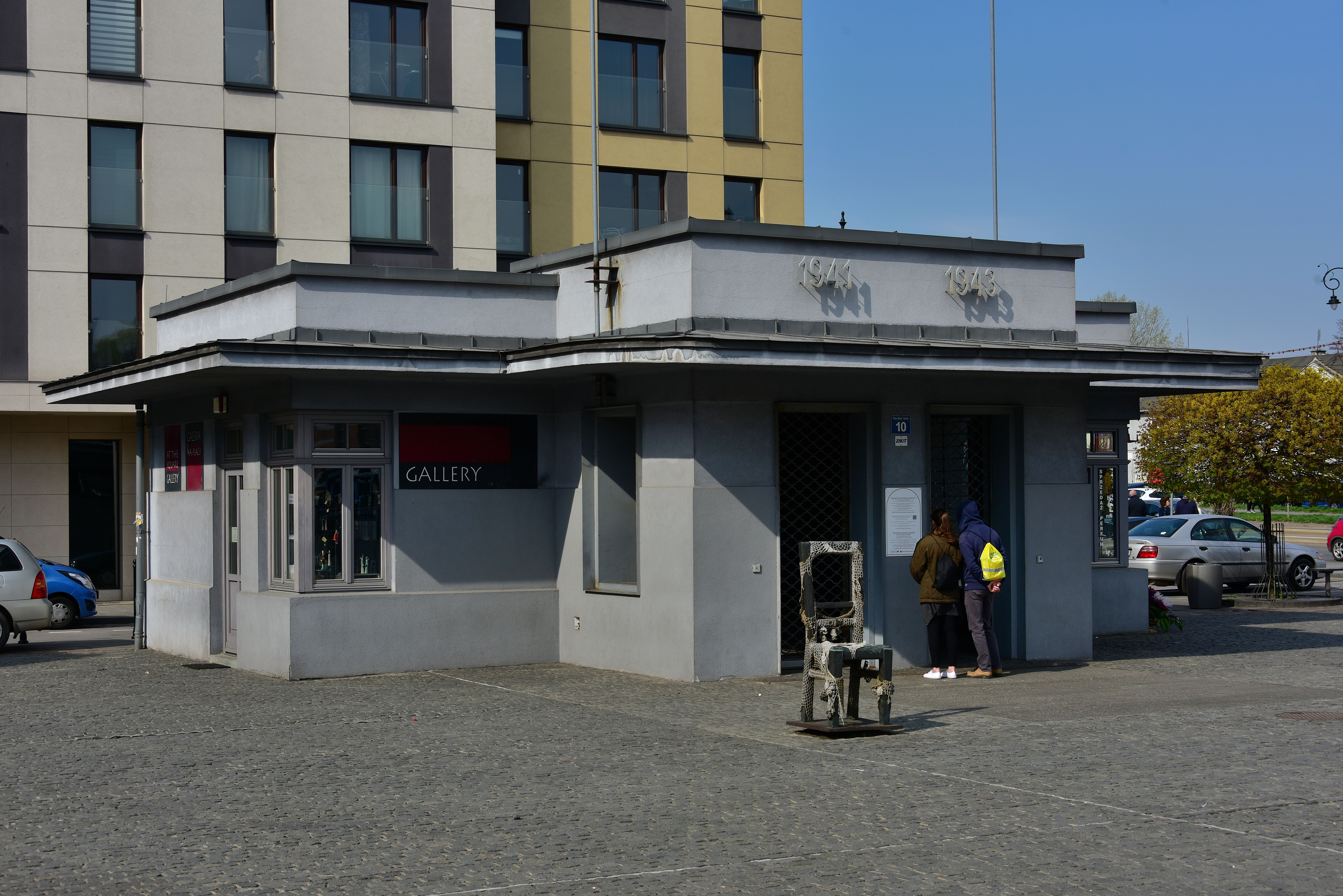 The building of former bus station at 10 Bohaterów Getta Square in Kraków